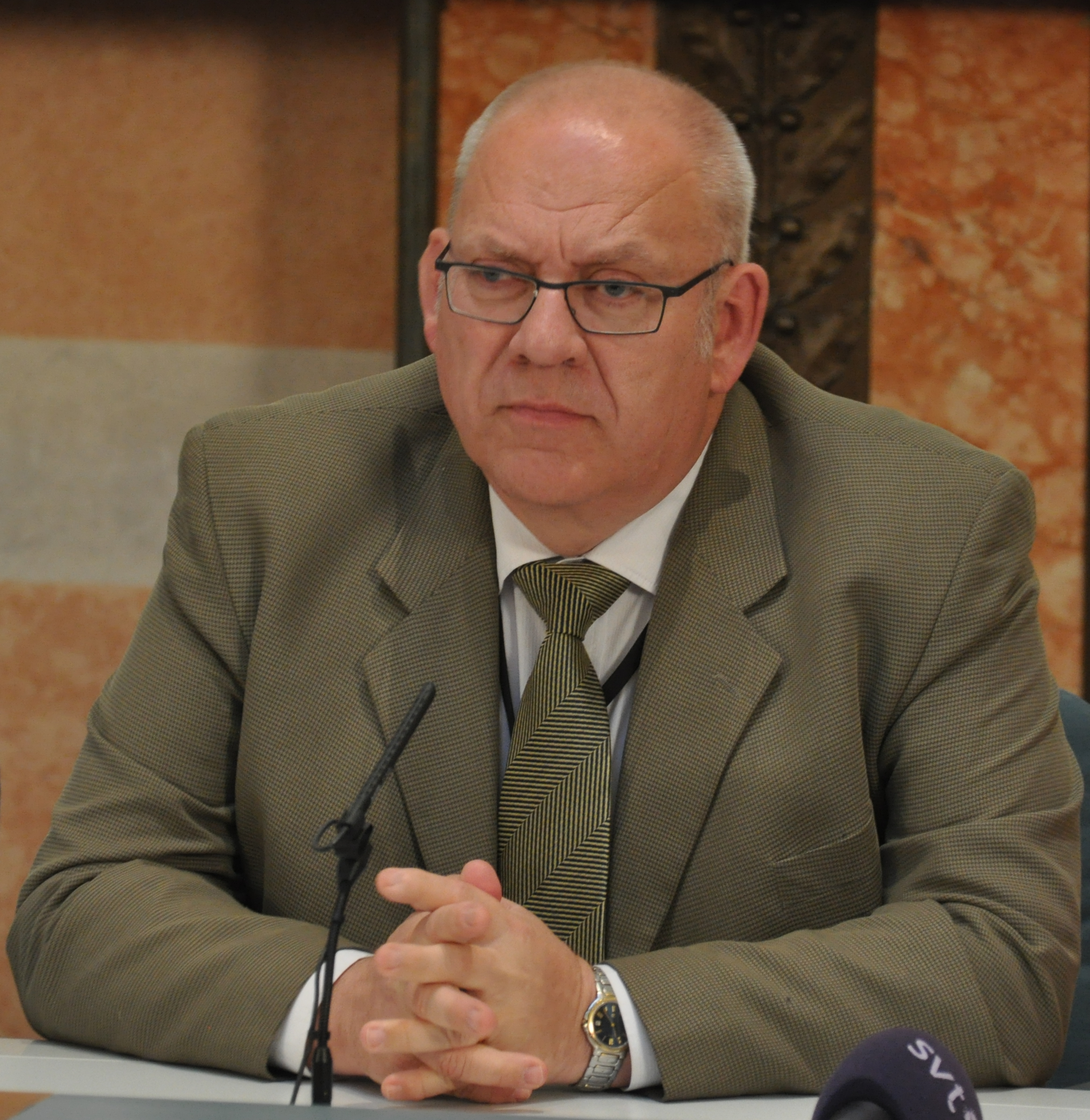 Press briefing at the Rosenbad Conference Centre: Göran Alm